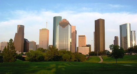 Downtown Houston from Eleanor Tinsley Park